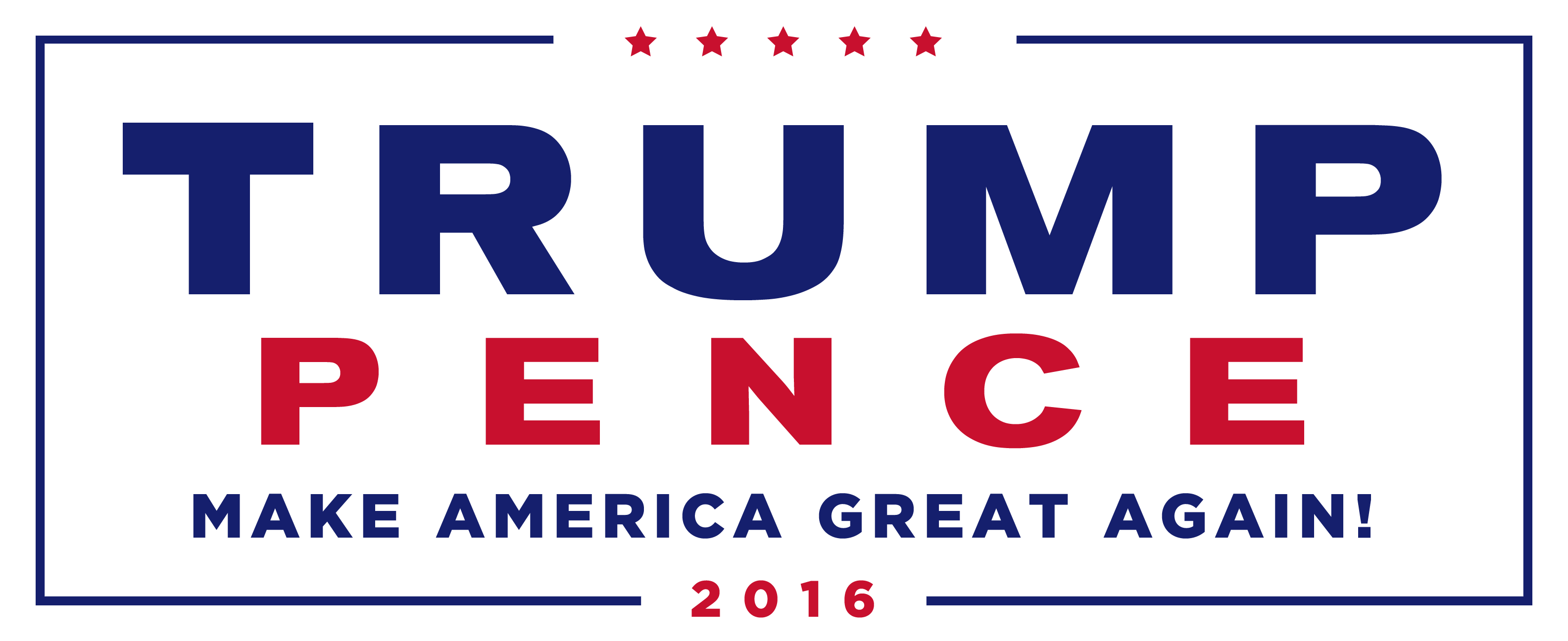 Campaign logo for the presidential campaign of Donald Trump of New York and Governor Mike Pence of Indiana